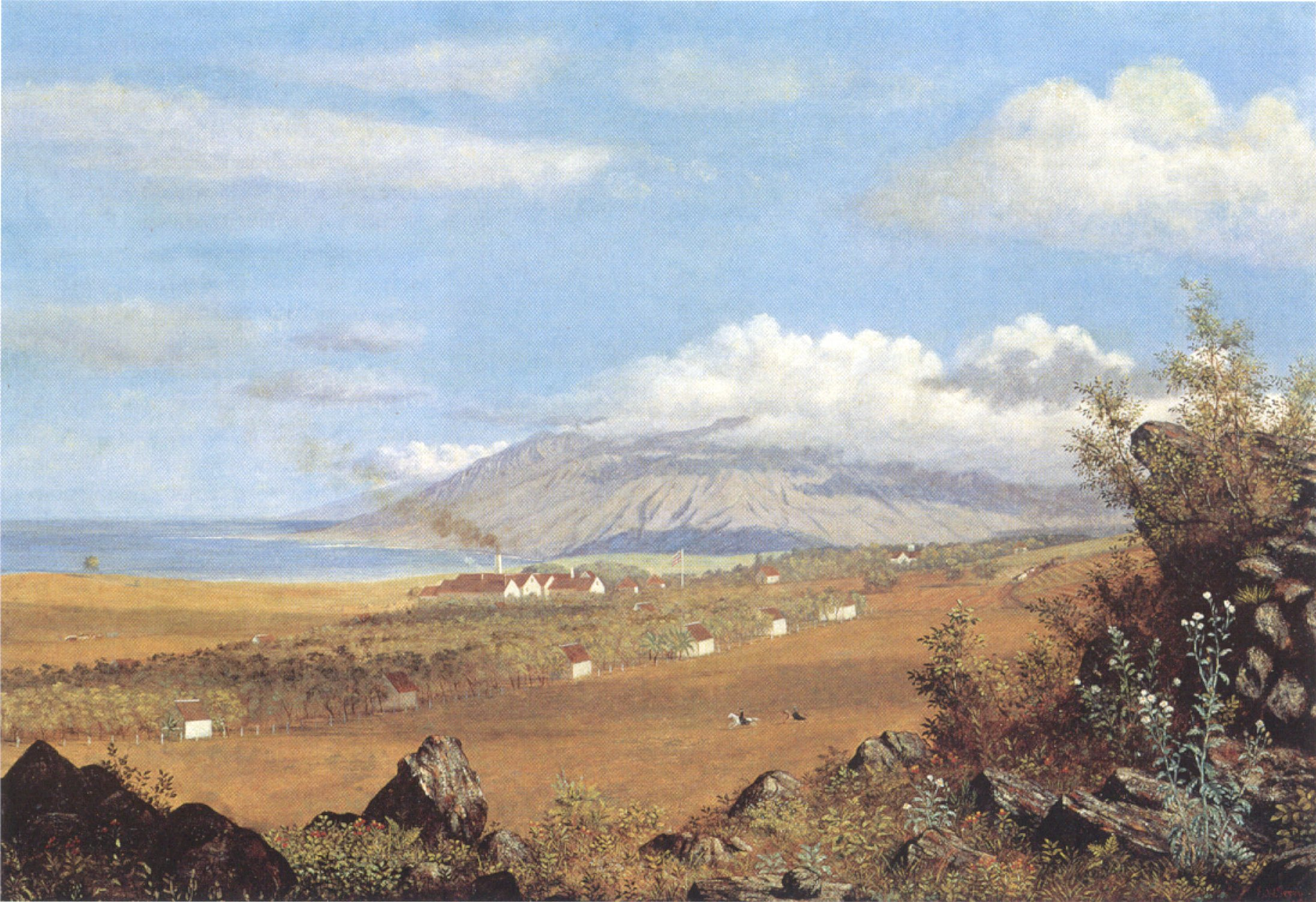 Rose Ranch, Ulupalakua, on the Slopes of Haleakala, Maui, 1865, oil painting by Enoch Wood Perry, Jr., Honolulu Museum of Art Native nameHonolulu Museum of ArtLocationHonolulu, Hawaii, USACoordinates21° 18′ 14″ N, 157° 50′ 54″ W Established1922Websitehonolulumuseum.orgAuthority control VIAF: 297612039 ISNI: 0000 0004 4661 5836 SUDOC: 185174566